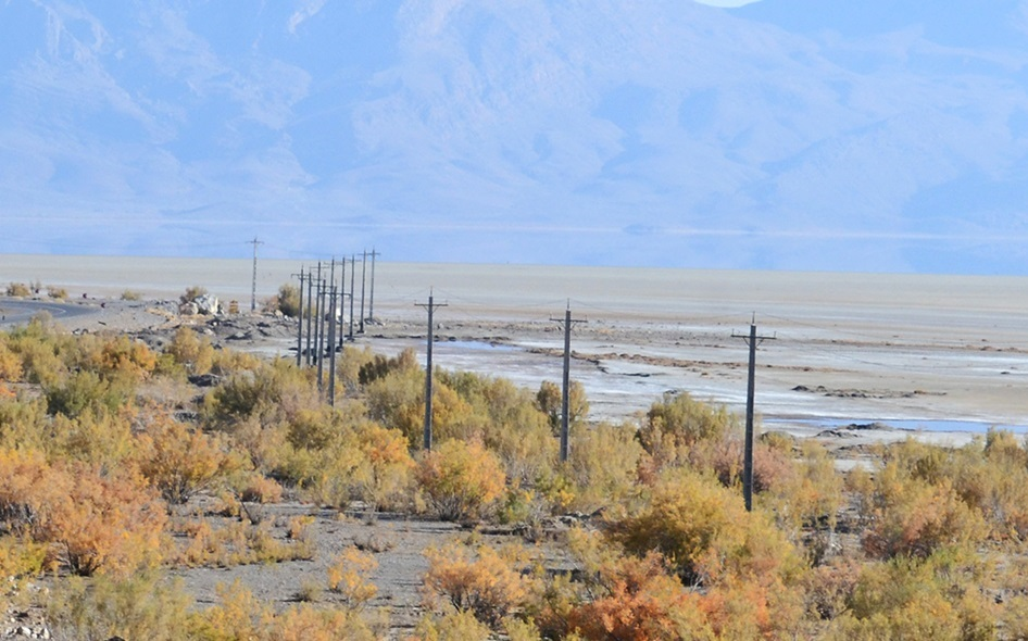 Tashak lake, Iran